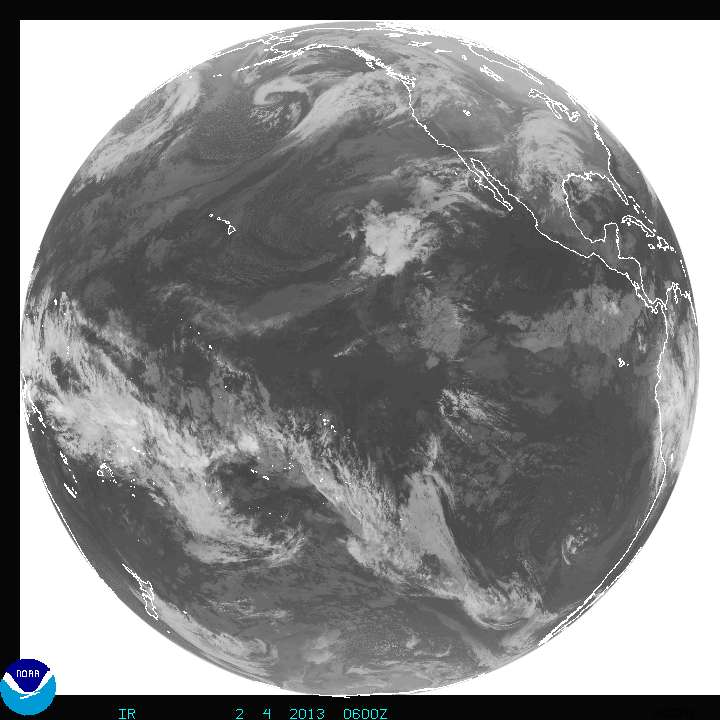 Infrared weather satellite image (IR) from the Pacific Ocean